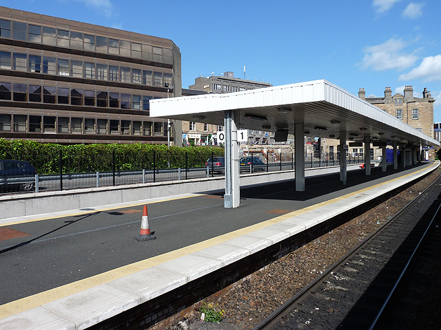 Platform Zero / Nought / Love at Haymarket Station Kafka would admire this nihilist gesture, surely! J K Rowling's Platform 9¾ at King's Cross has to take second place! Where do trains from this platform go? Not Hogwarts. "We're on a rail to nowhere!"